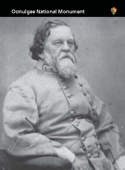 From Statesman to Soldier Former Congressman and founder of the Confederacy, Cobb took command of Georgia State Troops in September 1863. During the siege of Atlanta in July 1864, Cobb’s troops defended Macon against the Union attack of Stoneman’s Raid. They were successful, and the Confederate Army remained in control of Macon until the fi nal days of the Confederacy.